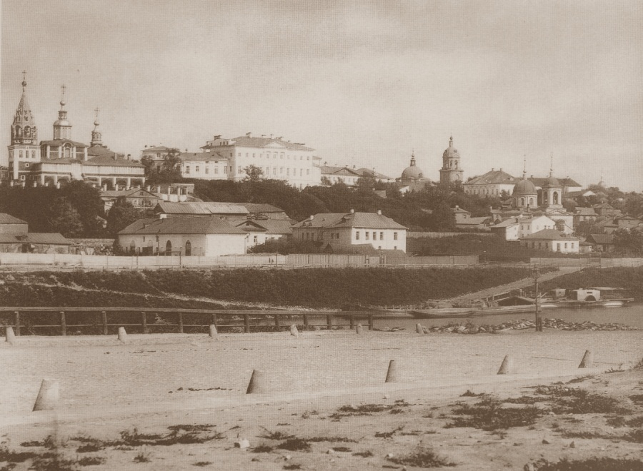 View of Vshivaya Hill (Tagansky District of Moscow - Kotelnicheskaya Embankment) across the Moskva River.